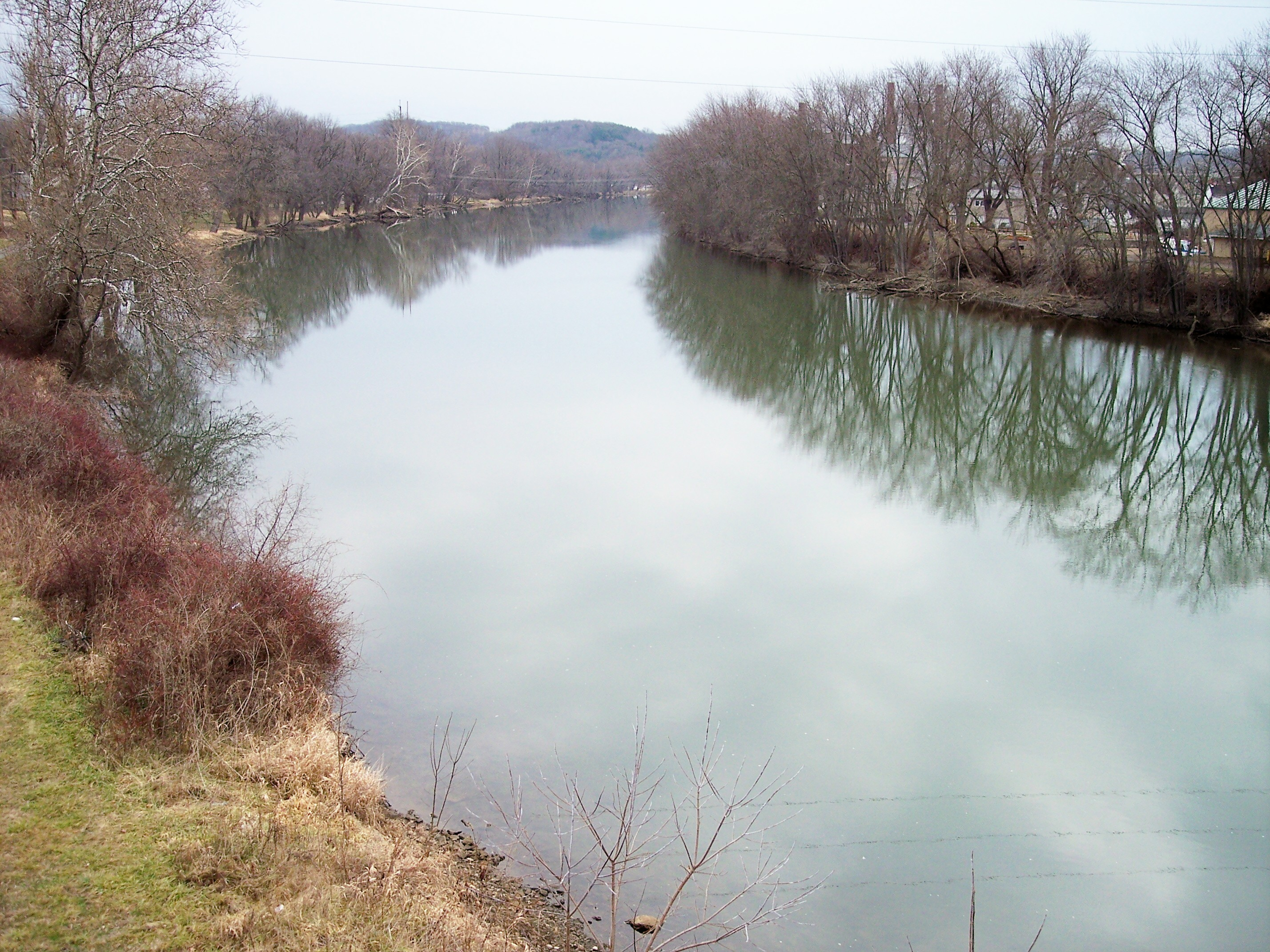 The Tuscarawas River as viewed upstream from Wooster Avenue in Dover, Ohio